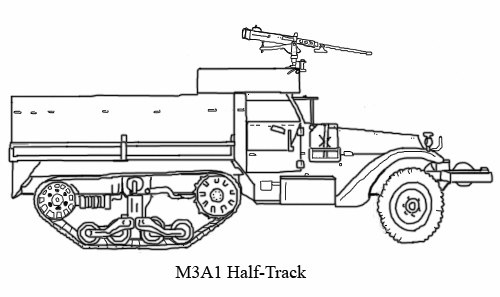 The M3A1 Half-track.